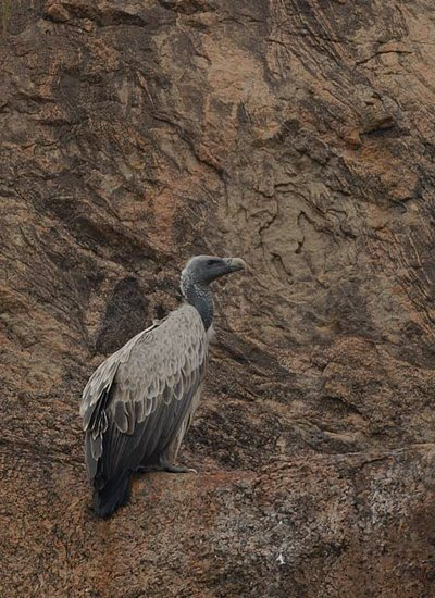 Adult Indian vulture seen on the outskirts of Bangalore in Ramanagara.